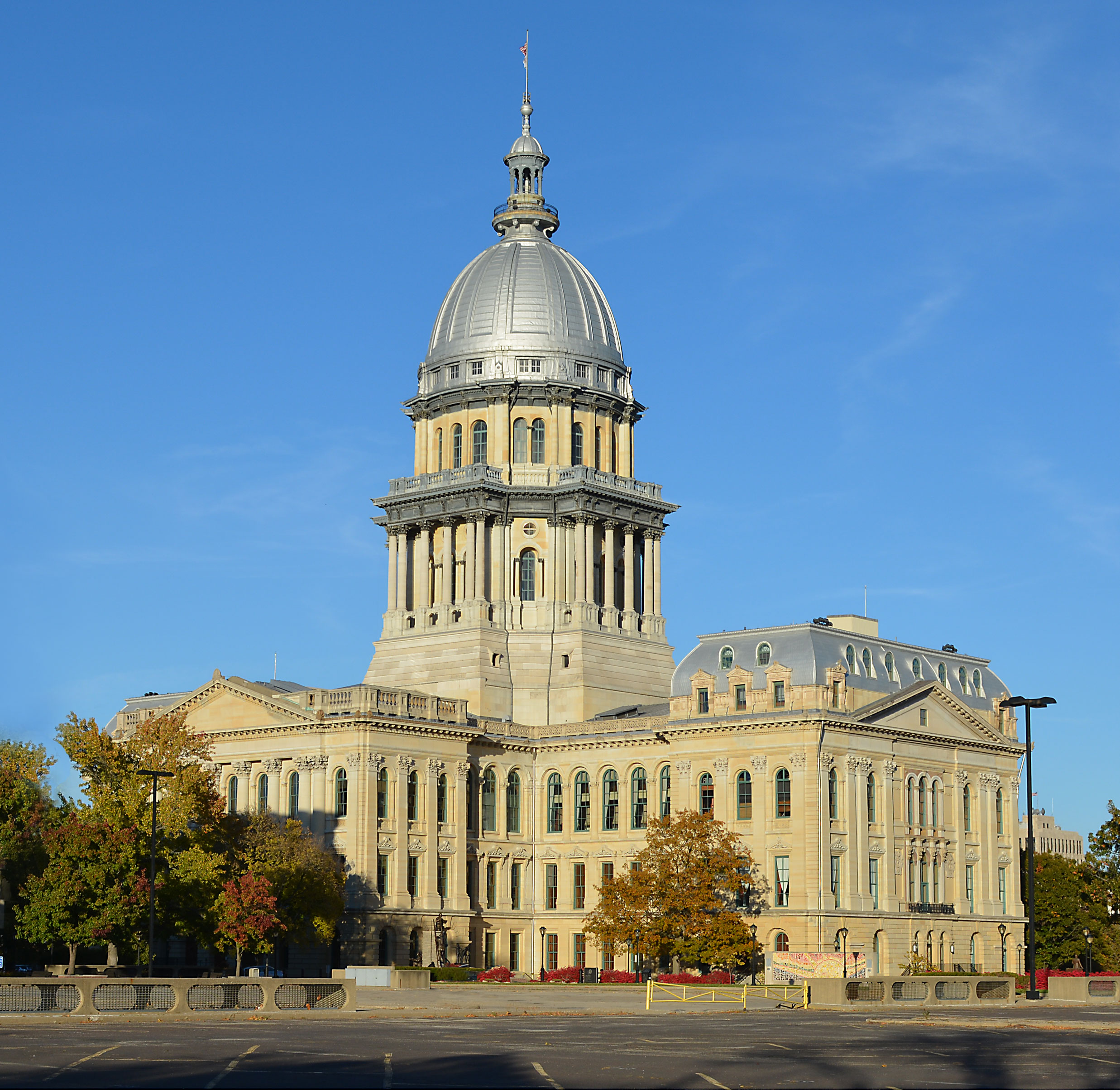 Illinois Capitol in Springfield Illinois.